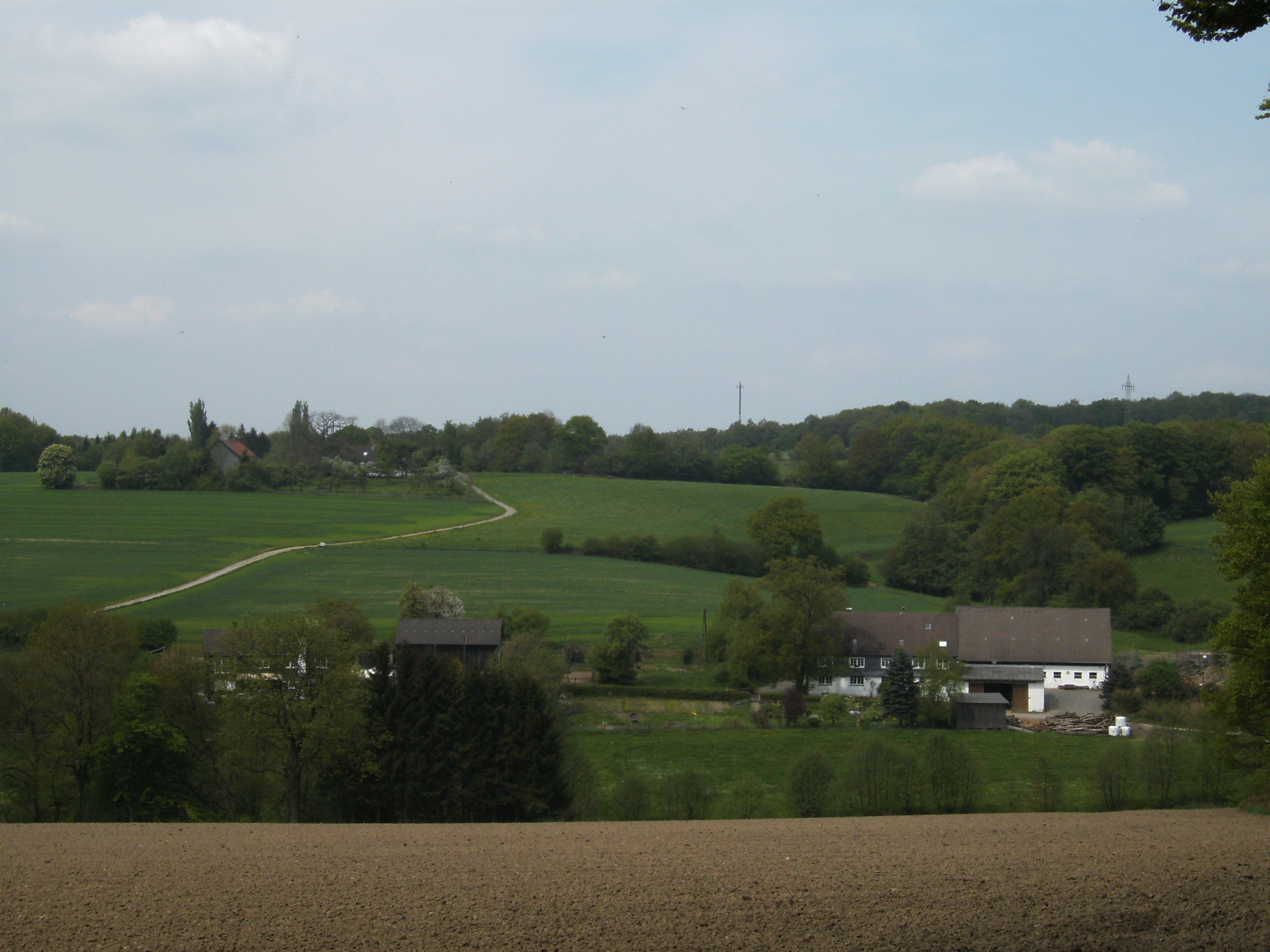 View of Saurenhaus in Wuppertal-Dönberg, Germany